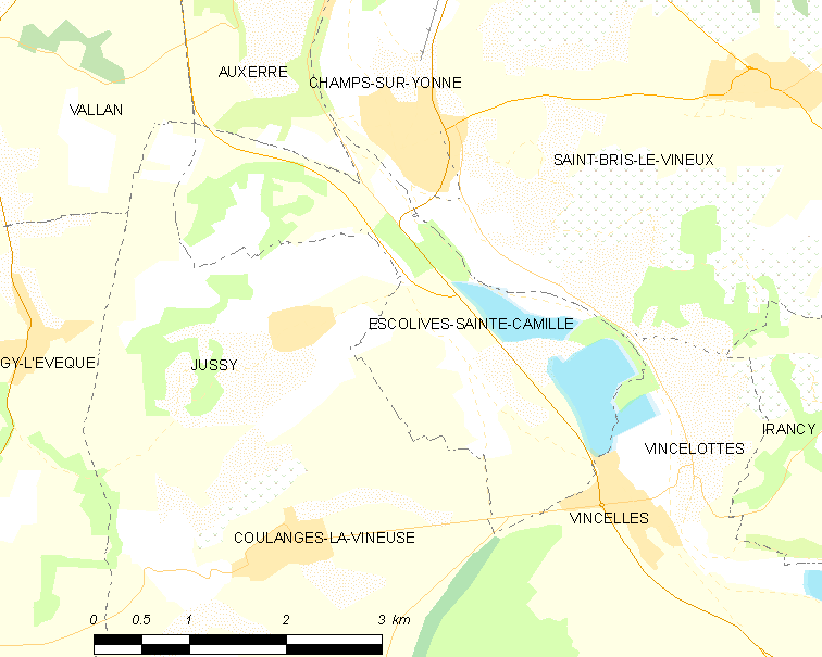 Map of French municipality Escolives-Sainte-Camille